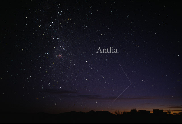 Photo of the constellation Antlia, the Air Pump